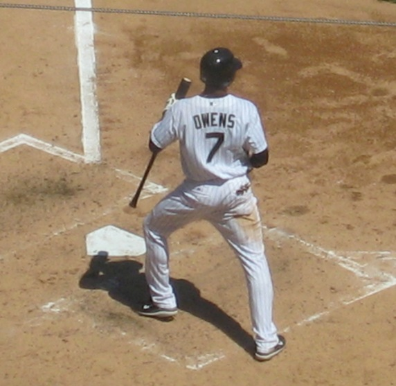 Jerry Owens in an at bat vs. the Toronto Blue Jays on July 29, 2007. 15:53, 2 August 2007 . . Packerfan22 . . 572×557 (80 KB)